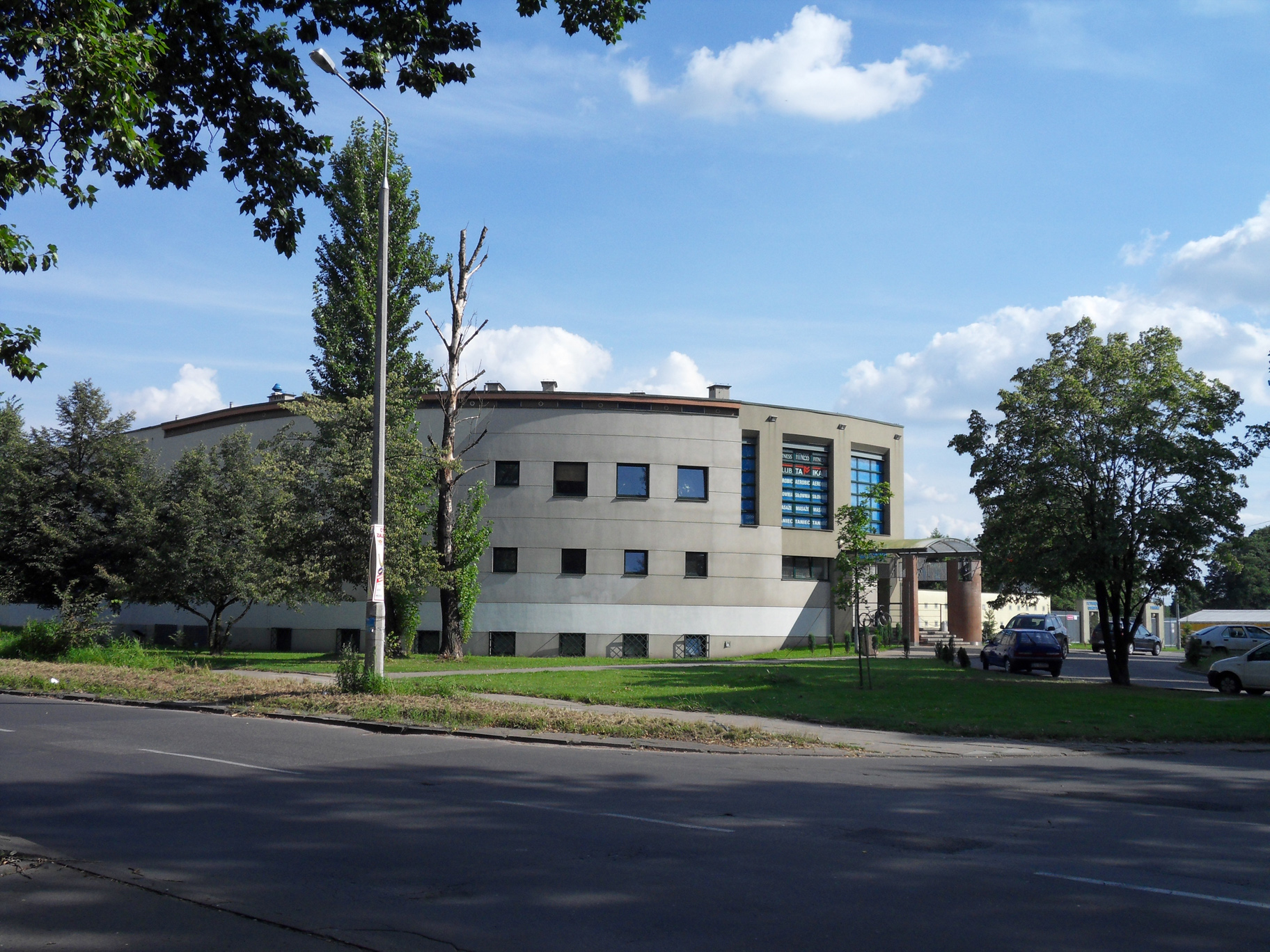 The swimming pools "Wodny Raj" (Water Paradise) in the settlement Teofilów Teofilów in Łódź, Poland